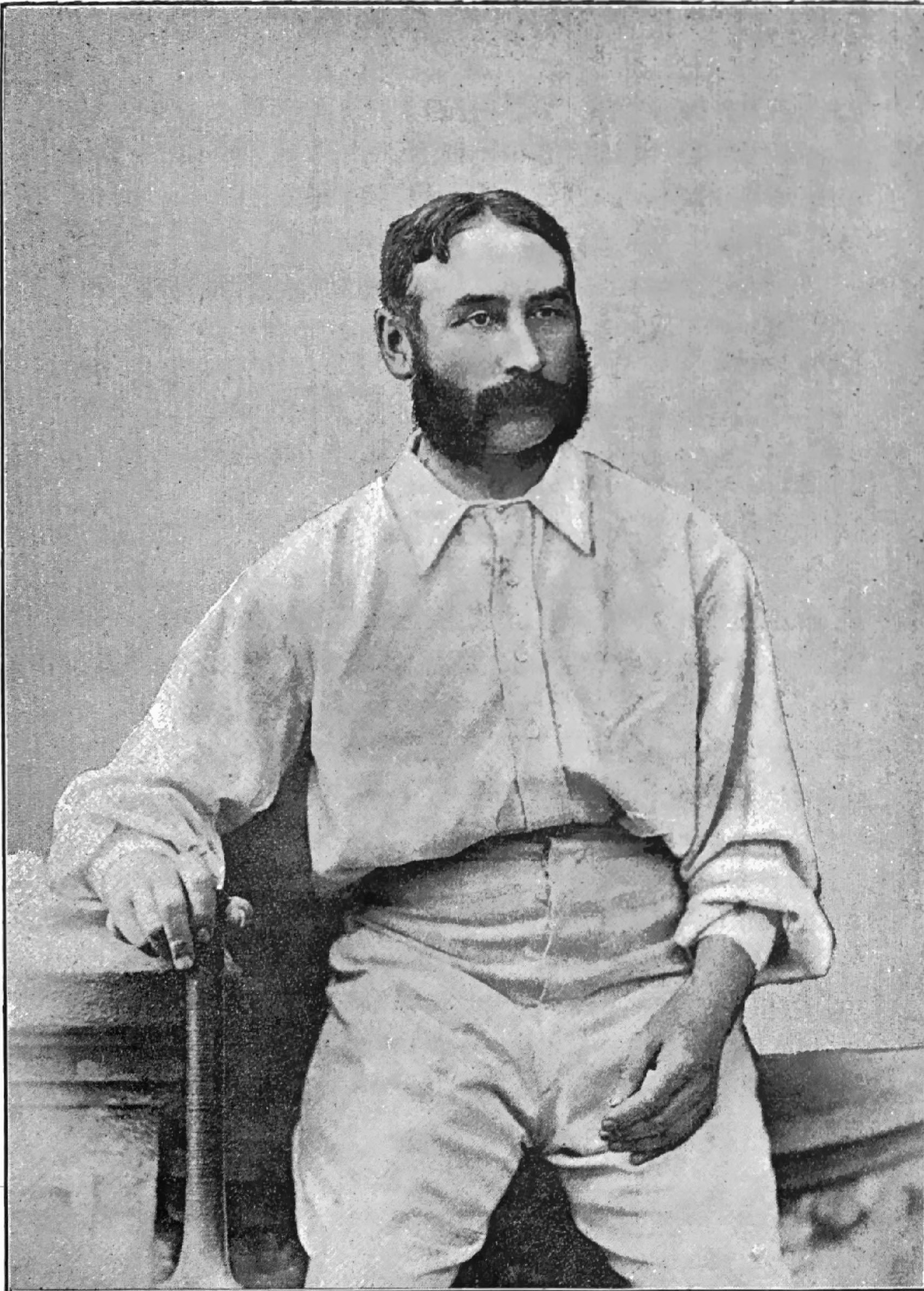 E.M. Grace